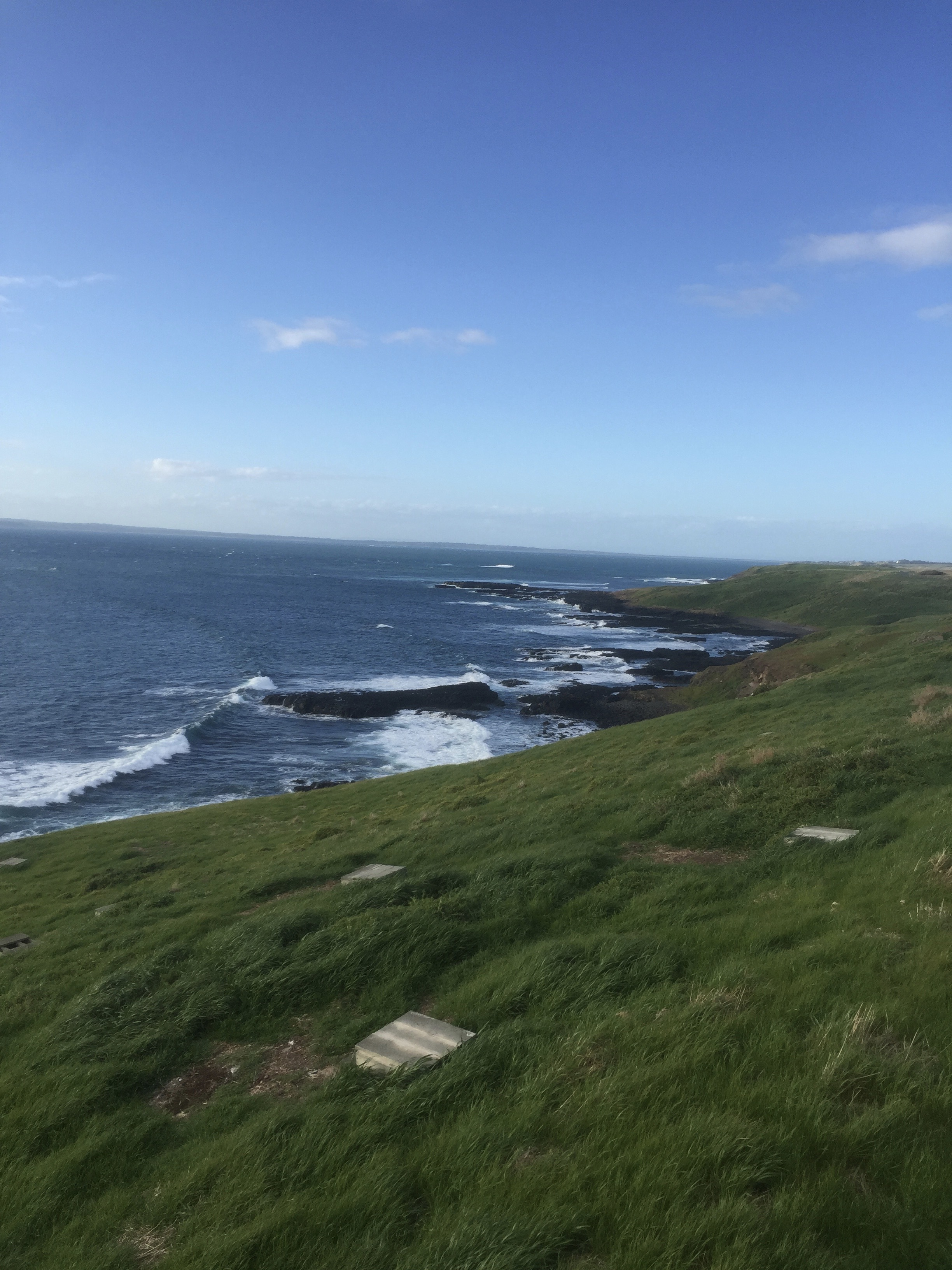 this is a sea side of Philip island where the fairy Pinguin usually nest